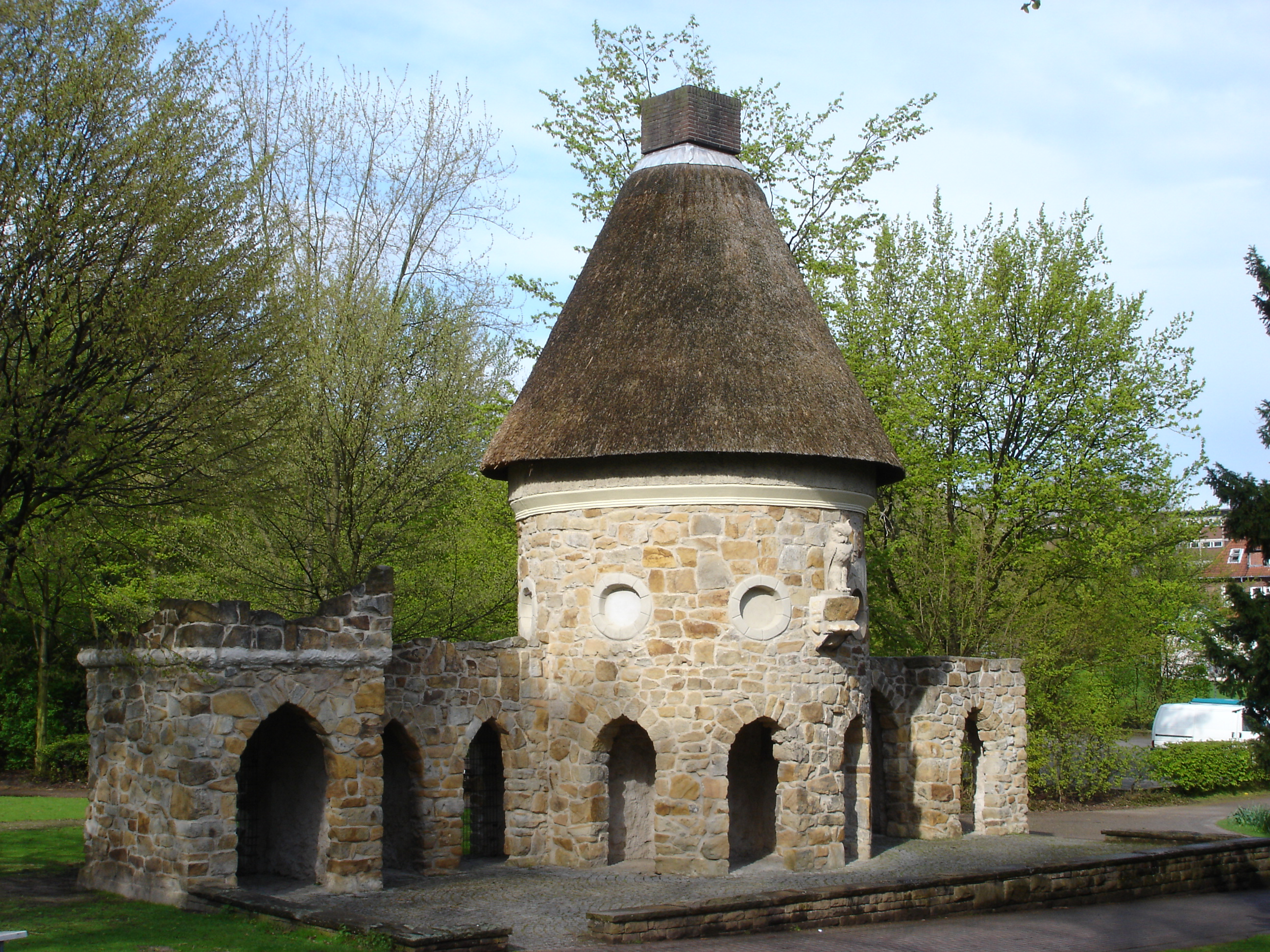 Panorama of the remnants of the old zoo in Münster, Westphalia, Germany